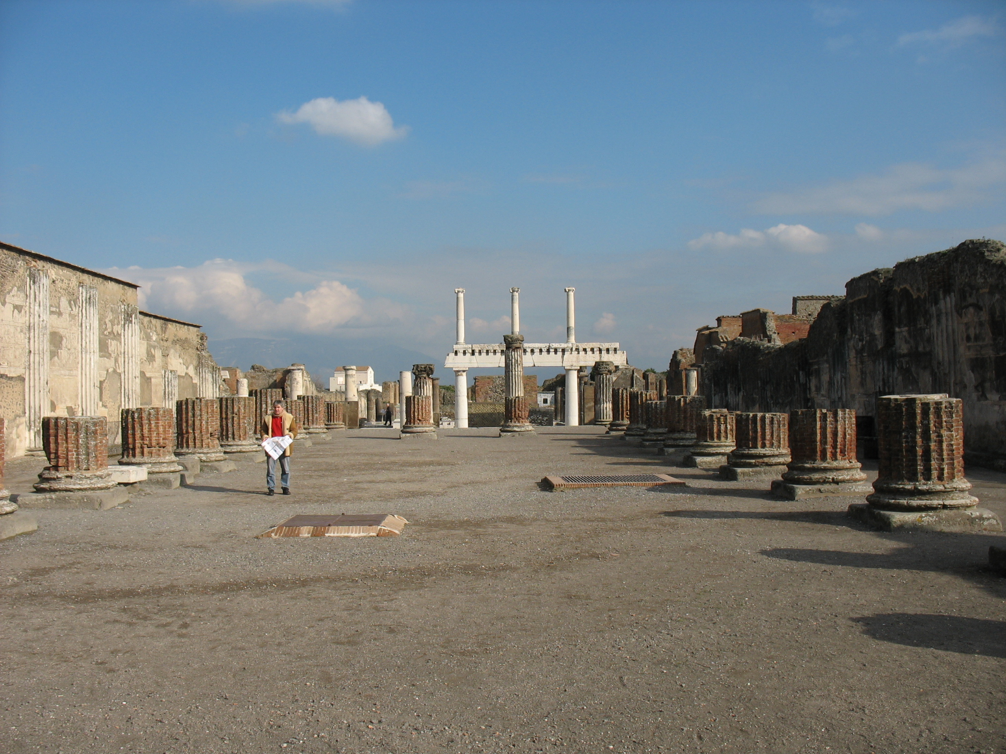 A photograph of the Pompeiian basilica (facing east) taken by myself on January 16, 2006.